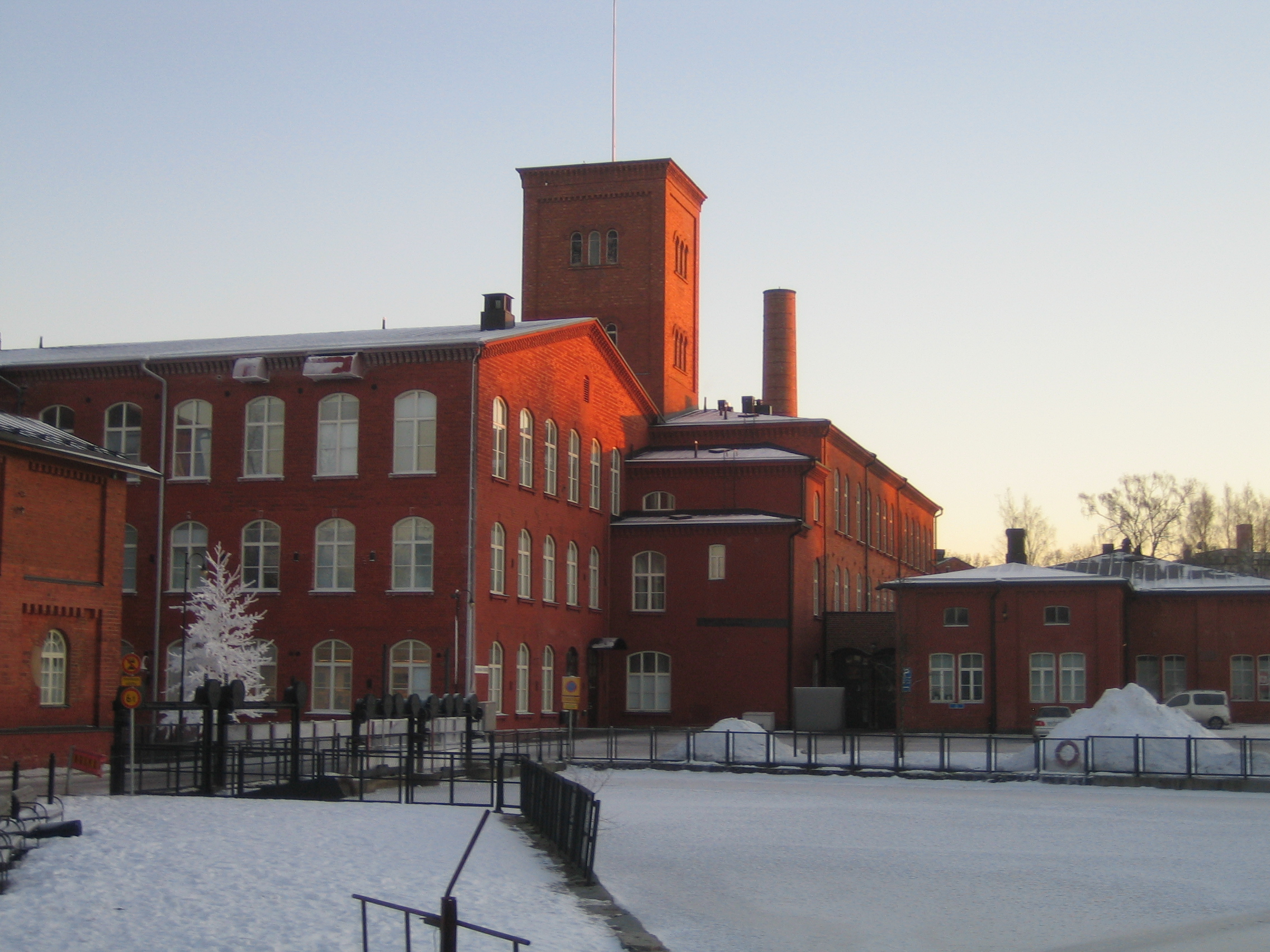 A spinning mill in Forssa, southwestern Finland.